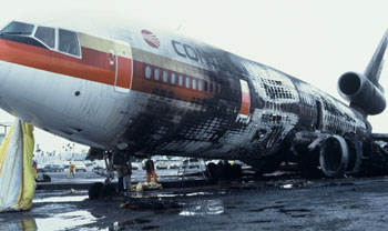 Photo of DC-10 fire damage